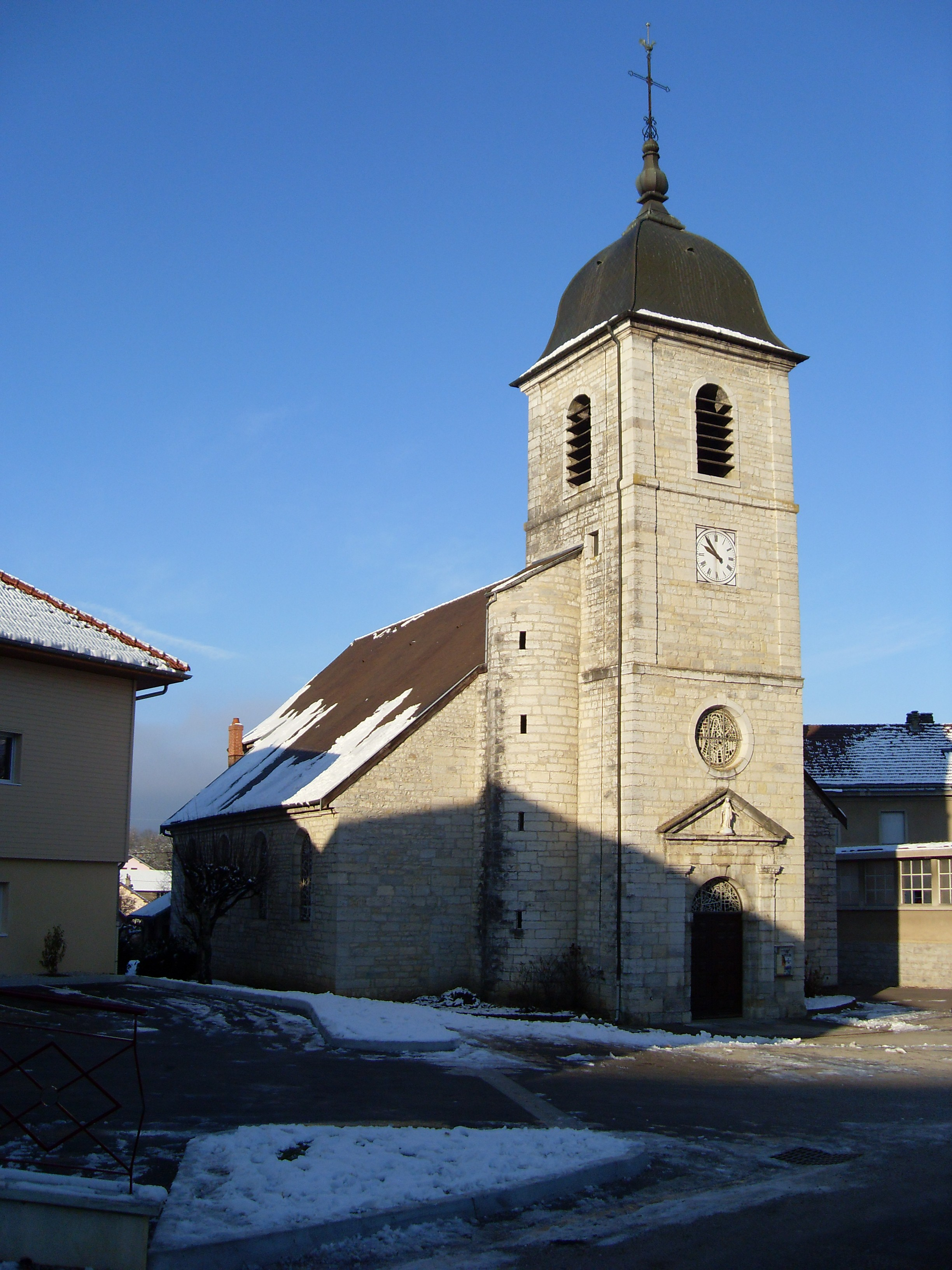 The church of the village Mouchard